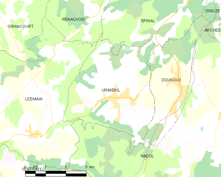 Map of French municipality Uriménil